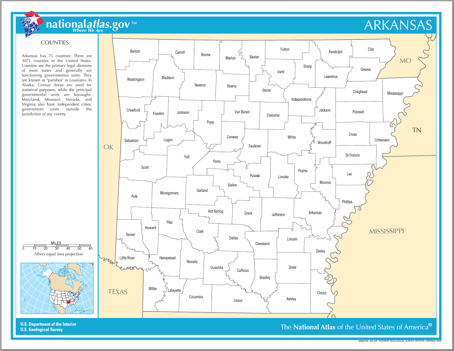 County Map for the U.S. state of Arkansas.